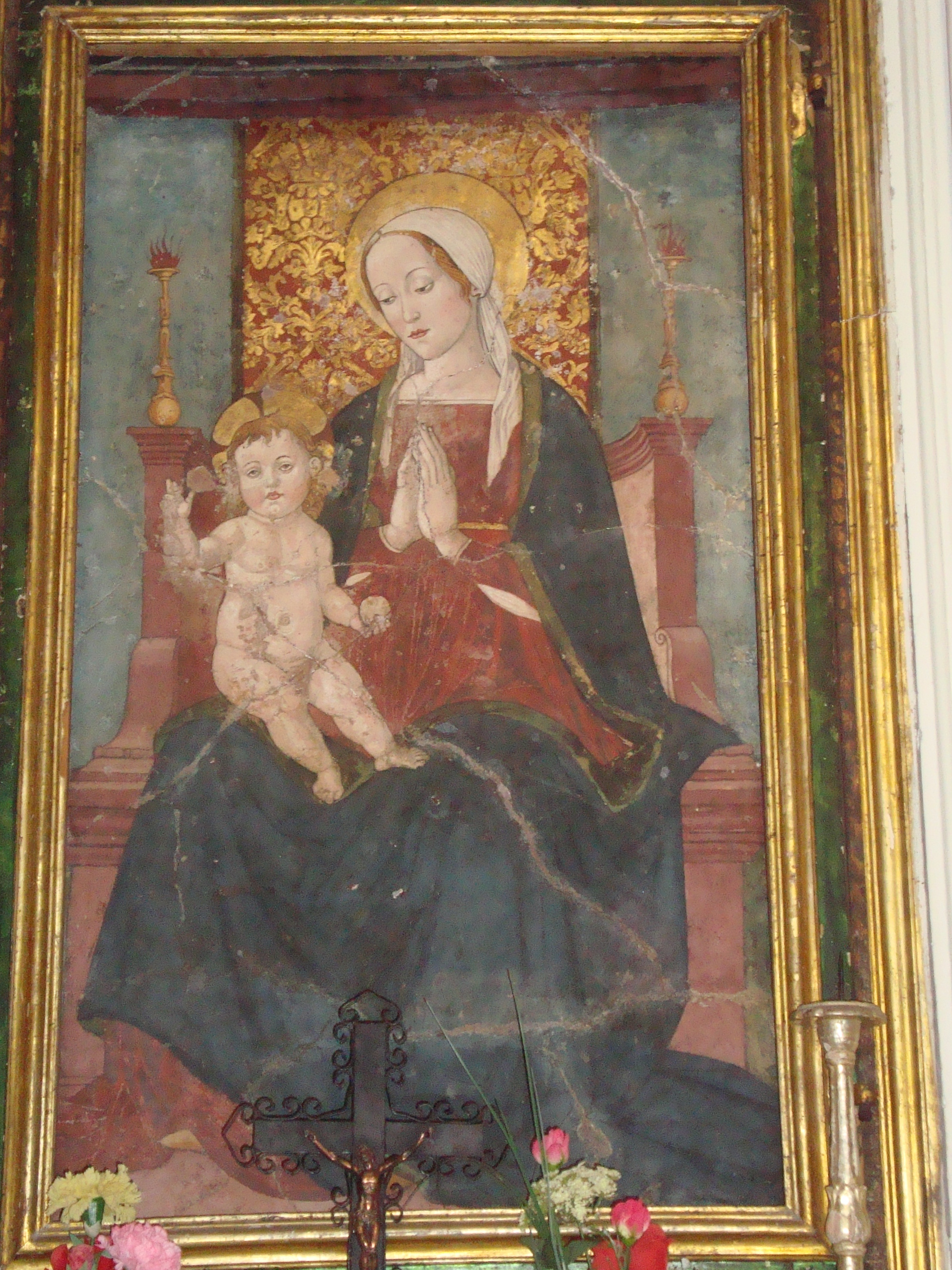 Oil painting of Santa_Maria_di_Costantinopoli, in a small chapel of Scanno, Italy